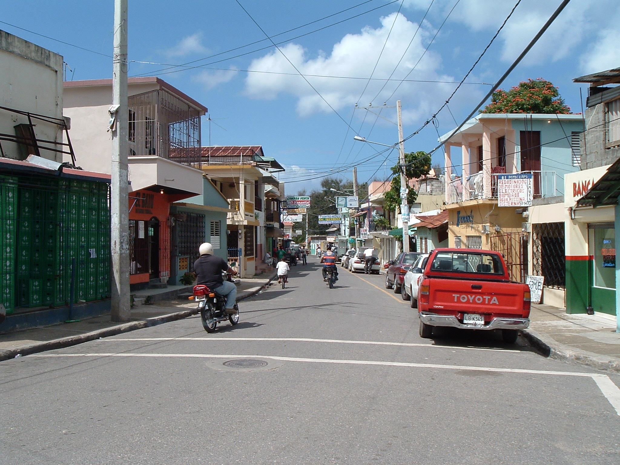 Author:Reimar Hoven Source:( - out of order)